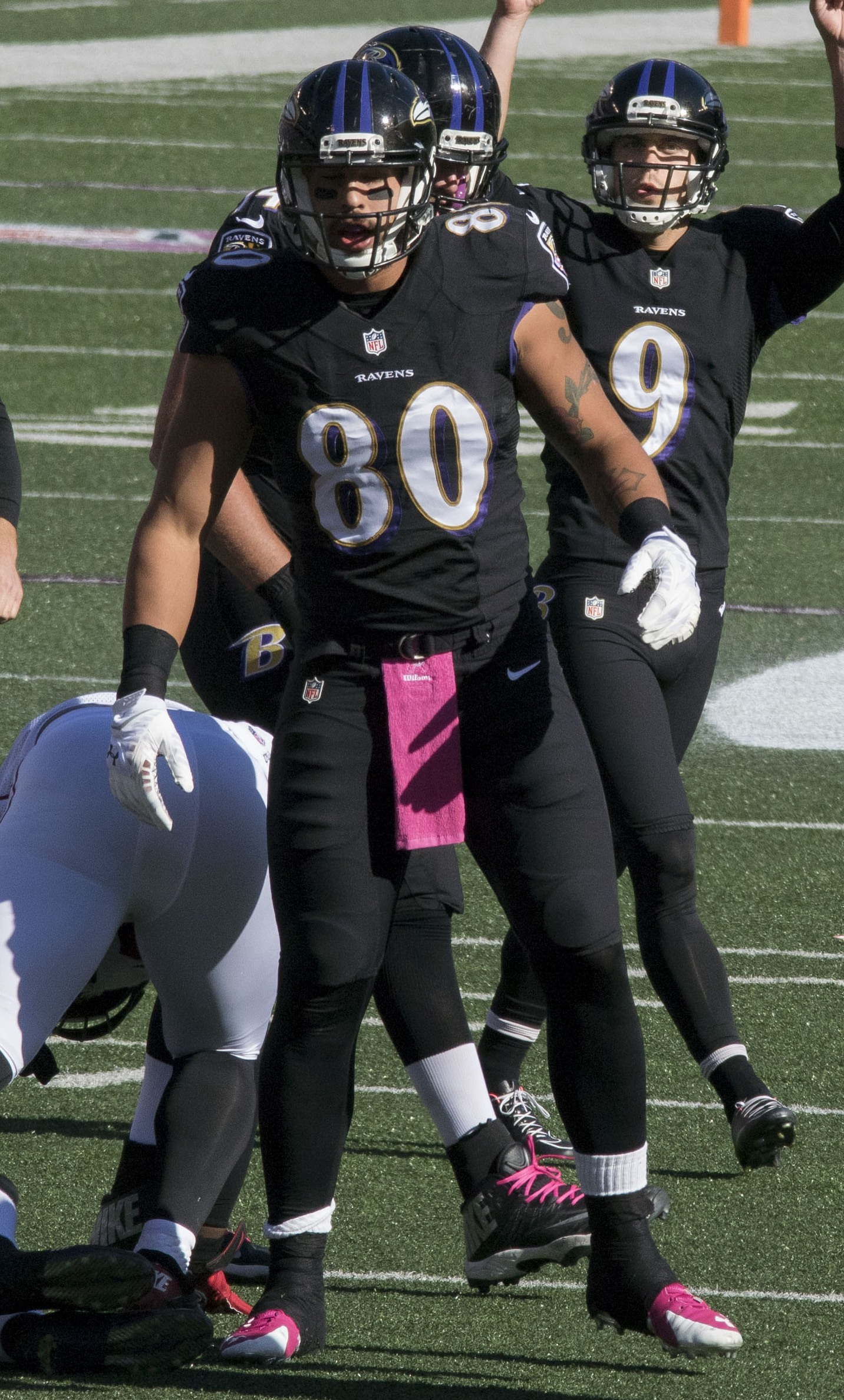 Baltimore Ravens tight end, Crockett Gillmore, in a game against the Atlanta Falcons on October 19, 2014